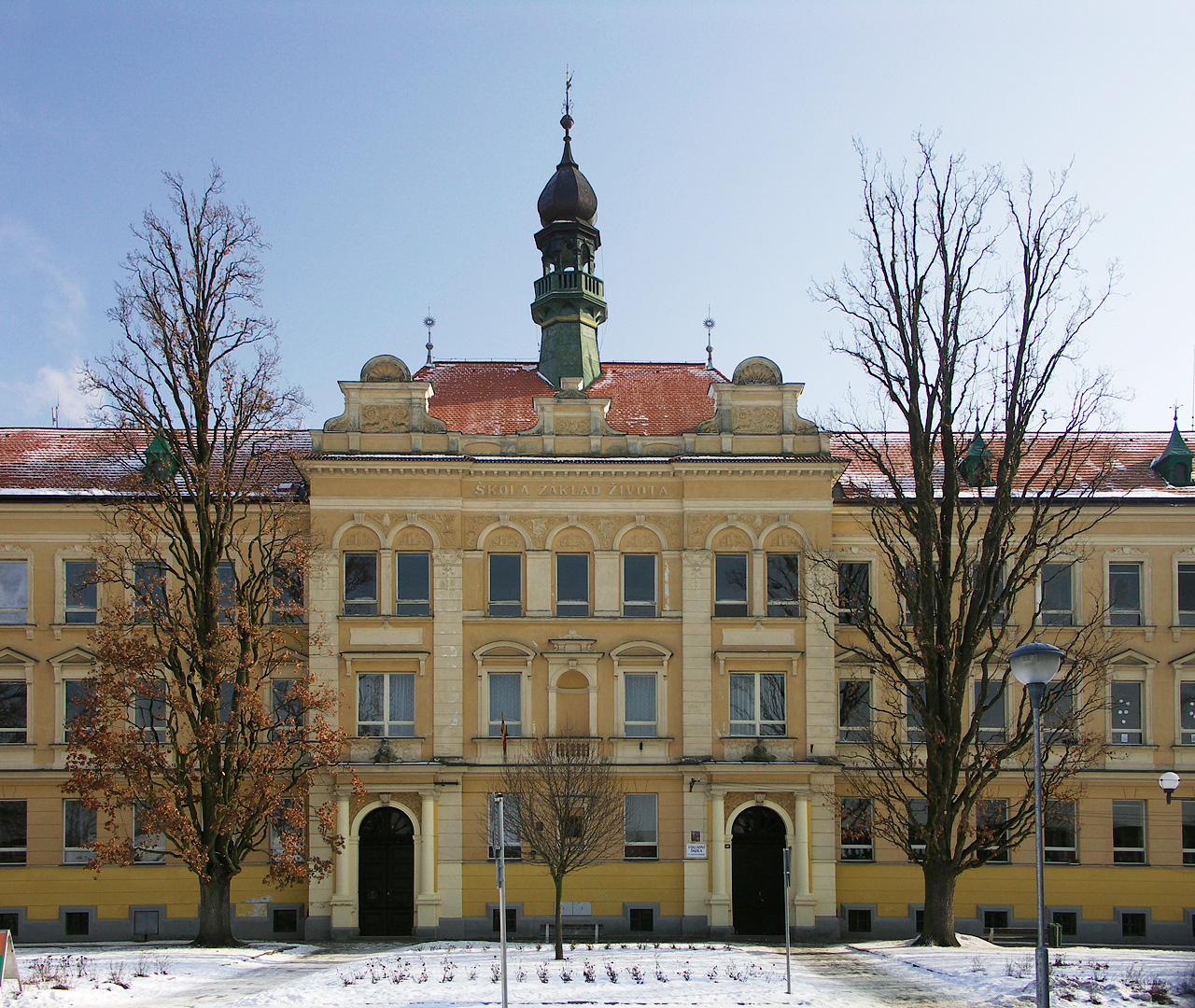 The school of Comenius in Blatná (CZE)